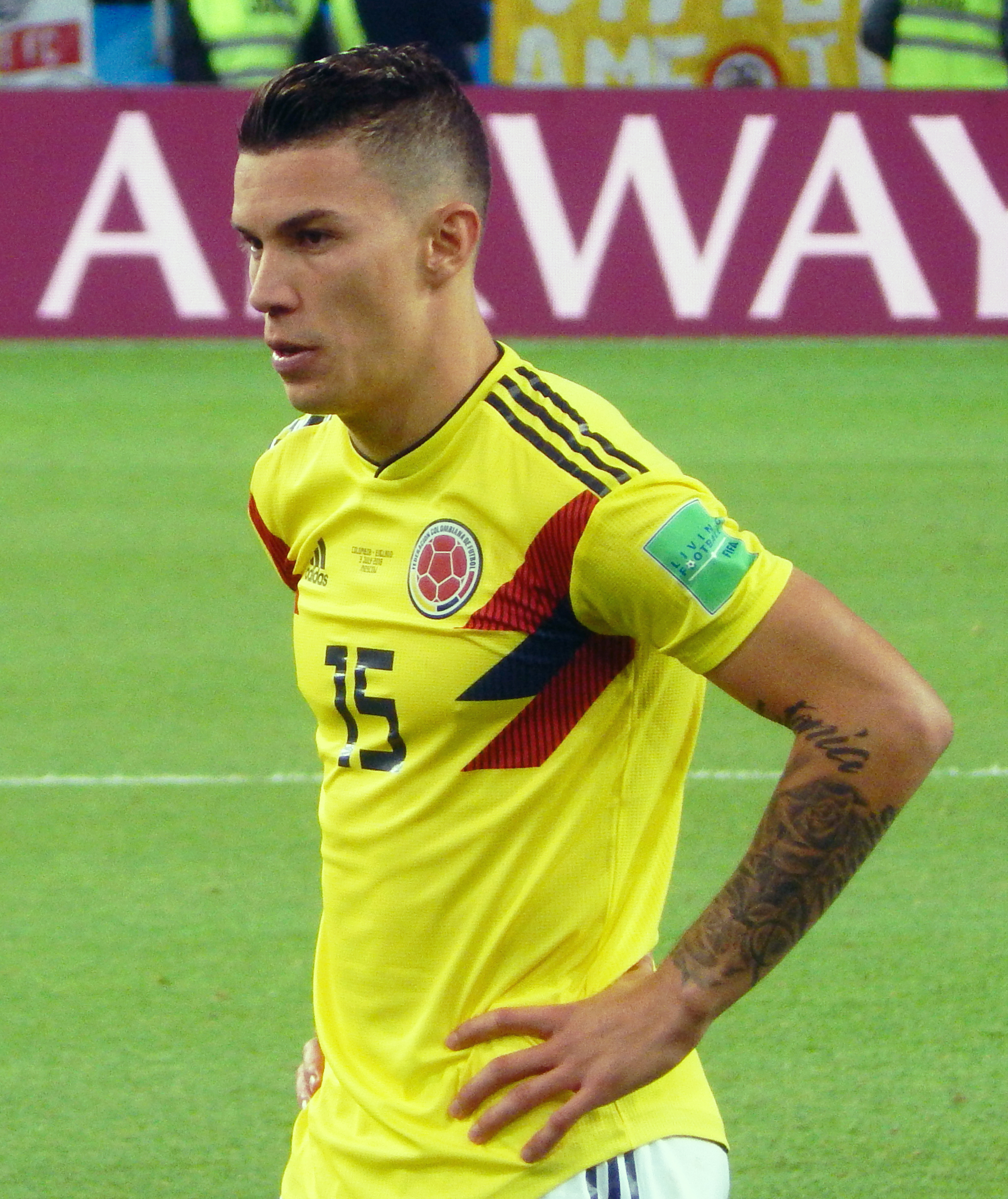 FIFA World Cup 2018, Round of 16, Colombia vs. England